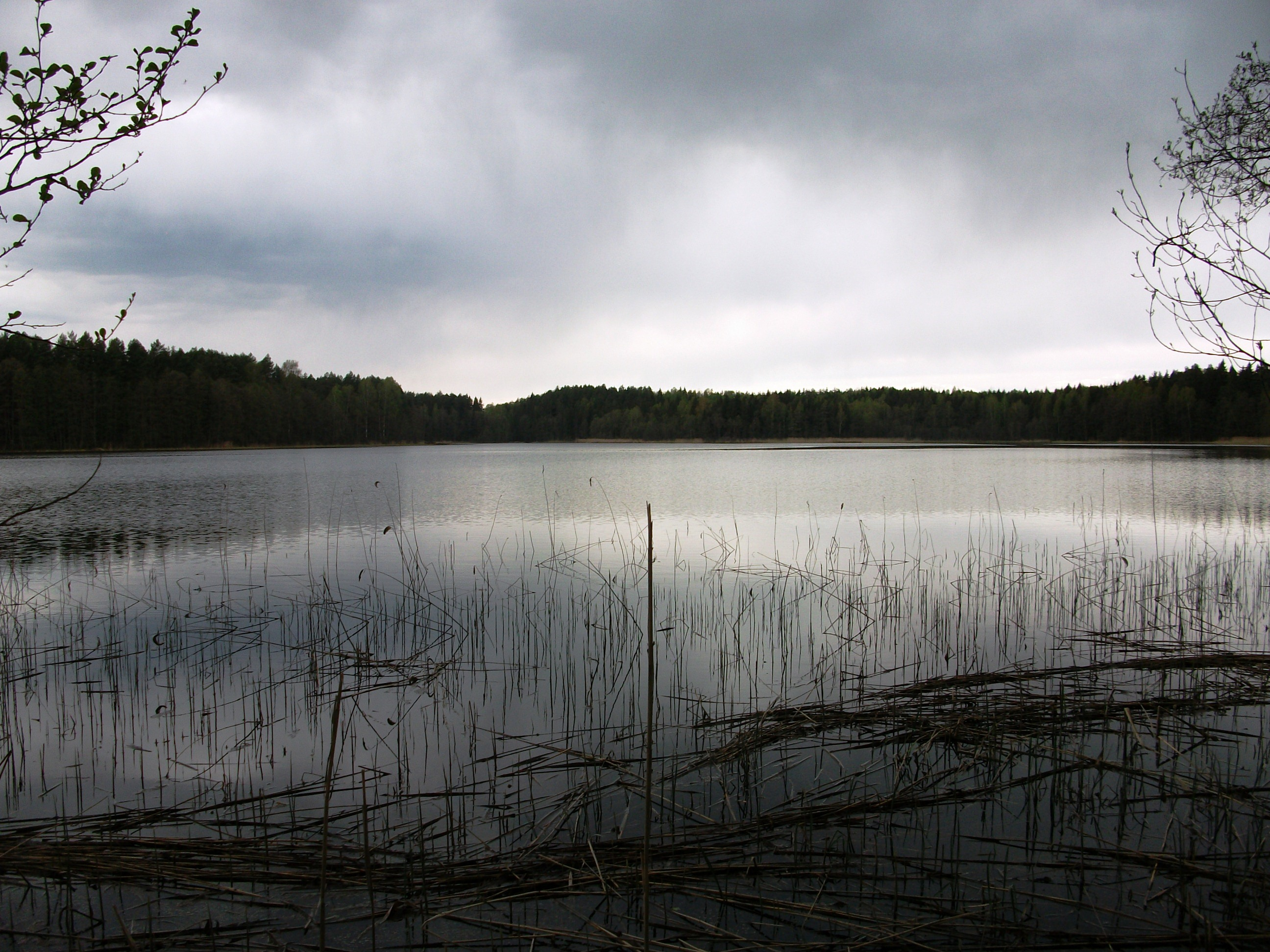 Turaveyskaye Lake, Astraviec district, Belarus